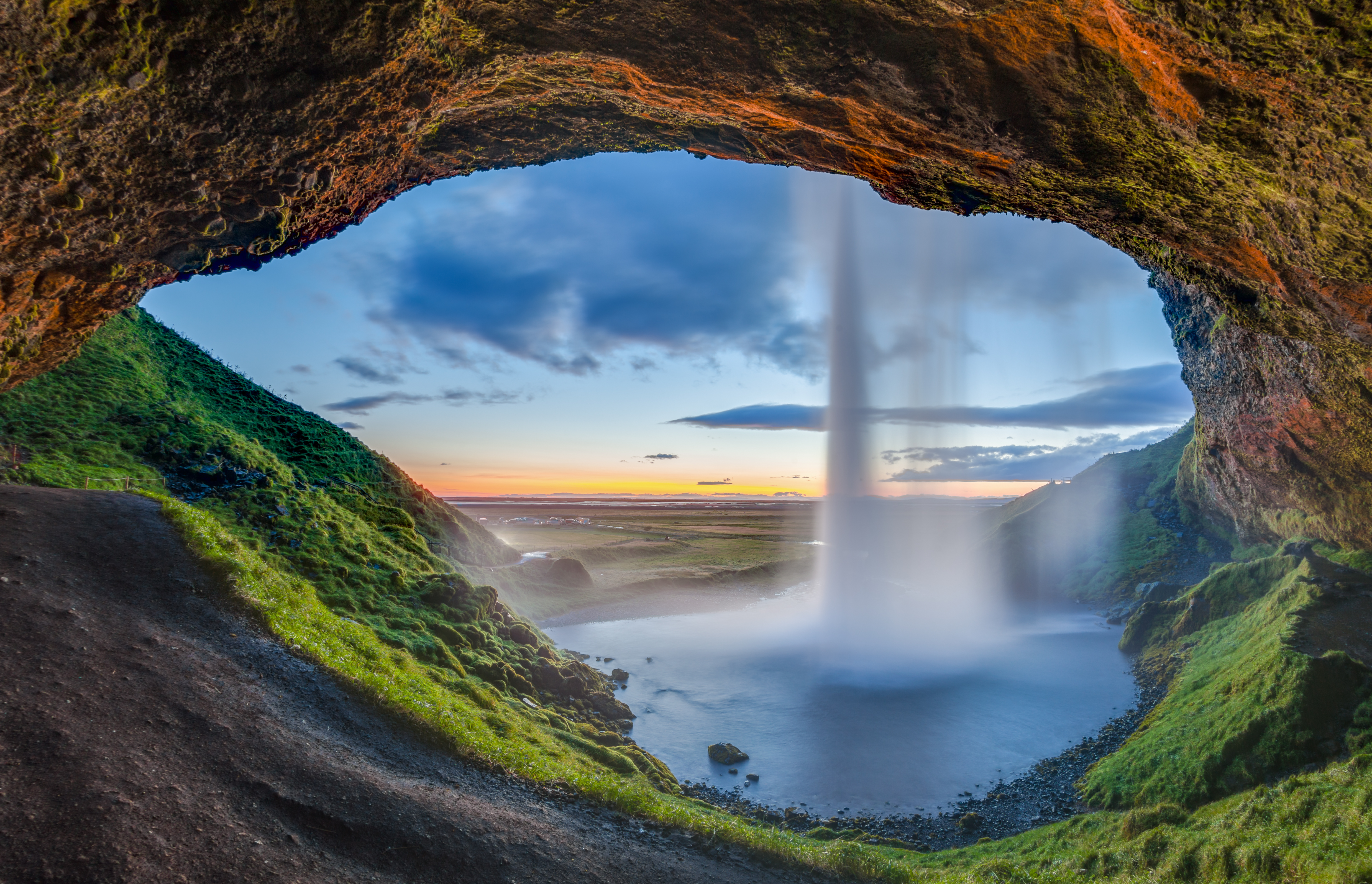 Sunset view from the back of the Seljalandsfoss waterfall, Suðurland, Iceland. The waterfall of the river Seljalandsá drops 60 metres (200 ft) over the cliffs of the former coastline.